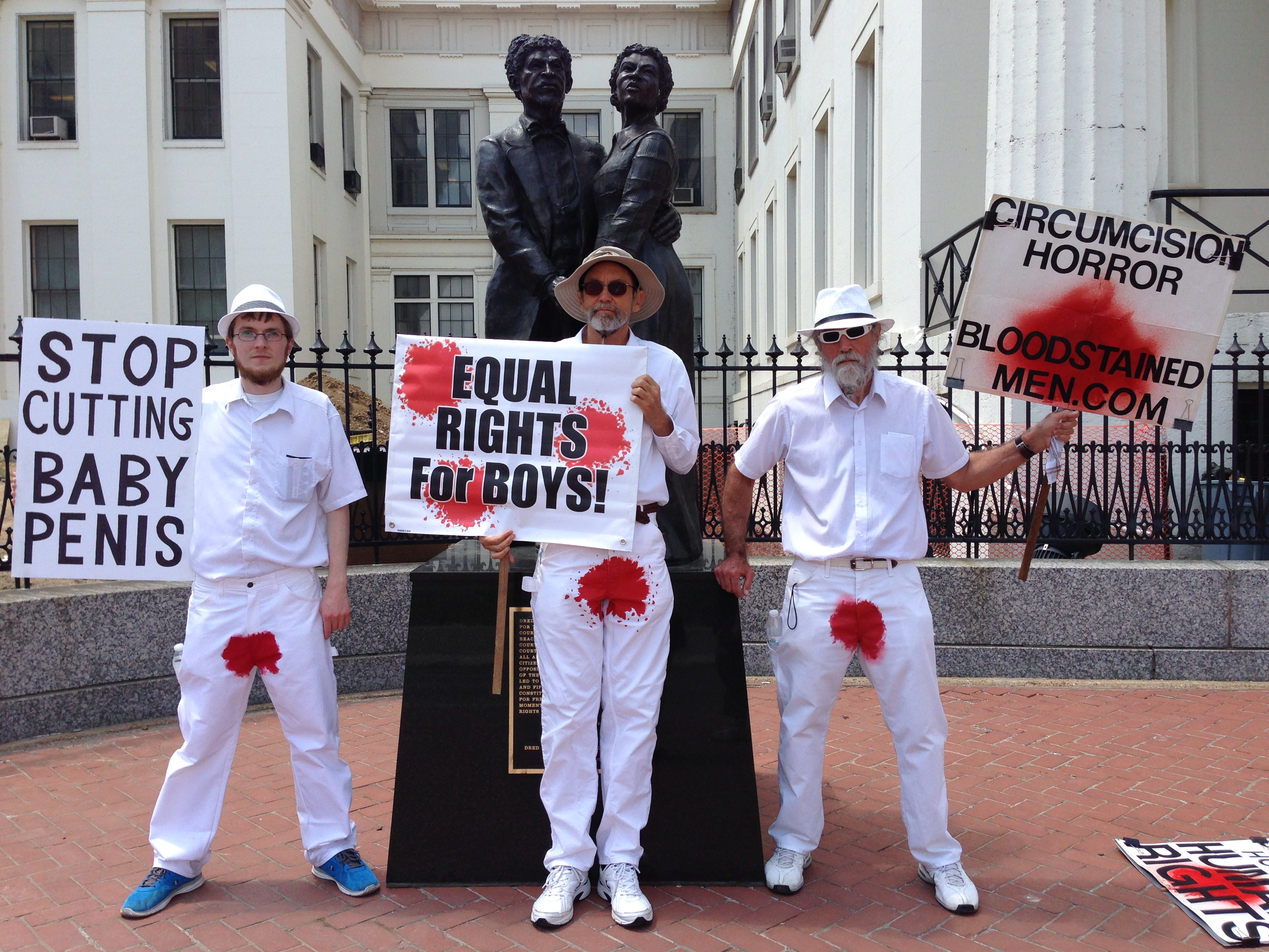 Anti-circumcision protest At the Dred Scott Memorial, St. Louis, Missouri. 169 years after Dred and Harriet Scott began the struggle for justice that resulted in the end of slavery in America, Bloodstained Men stand at the Dred Scott memorial demanding the right to bodily integrity for all Americans.